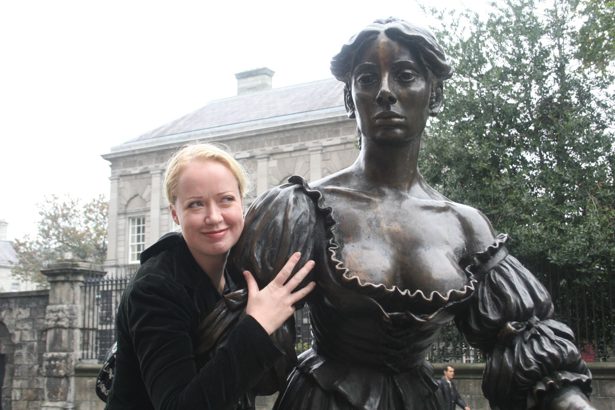 Åsa & Molly Malone. In Dublin's fair city, where the girls are so pretty.